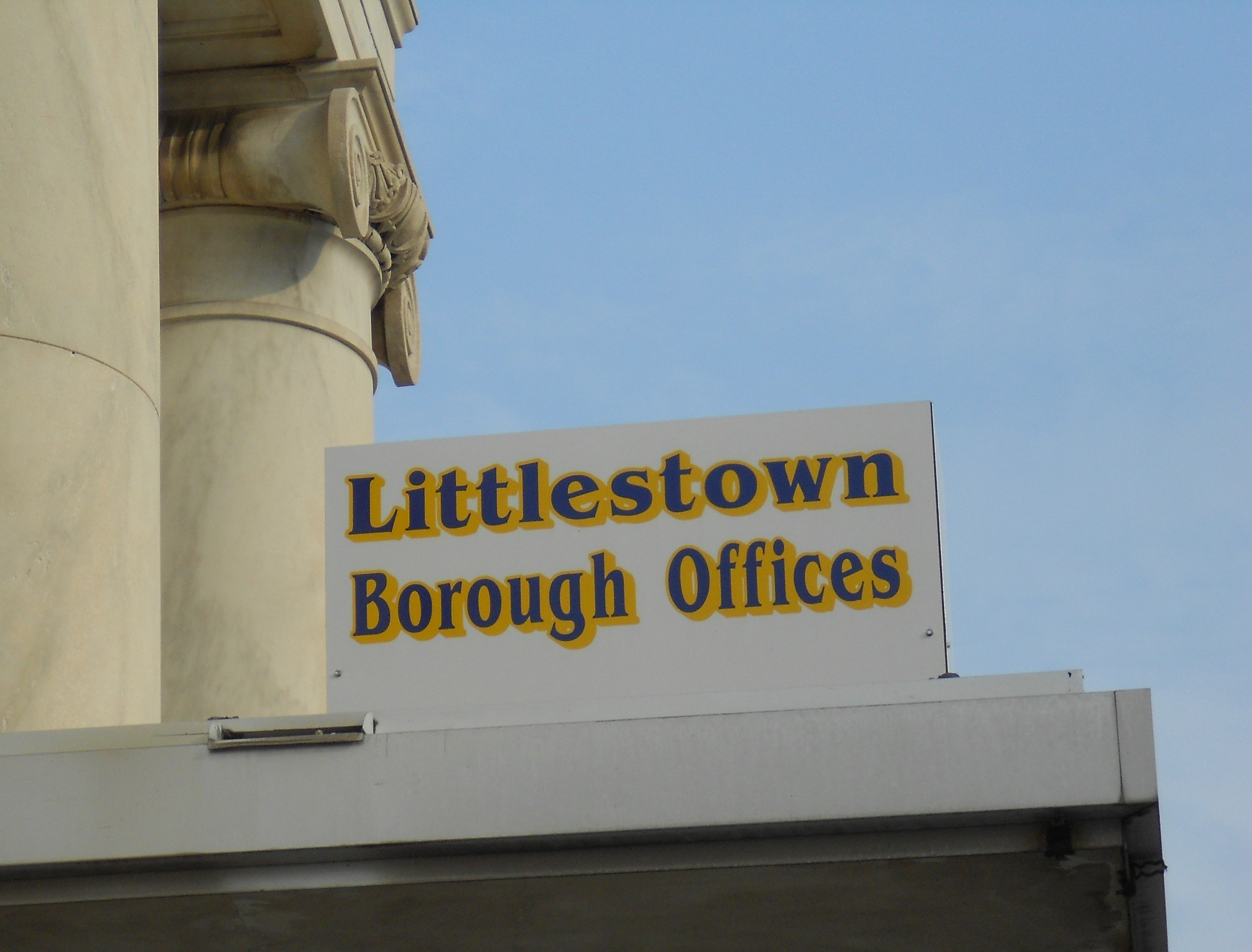 Sign on municipal office of Littlestown, which is incorporated in Pennsylvania as a borough, a self-governing municipal entity